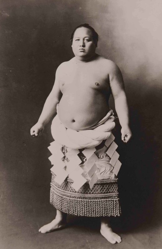 The 15th Yokozuna Hitachiyama Taniemon.